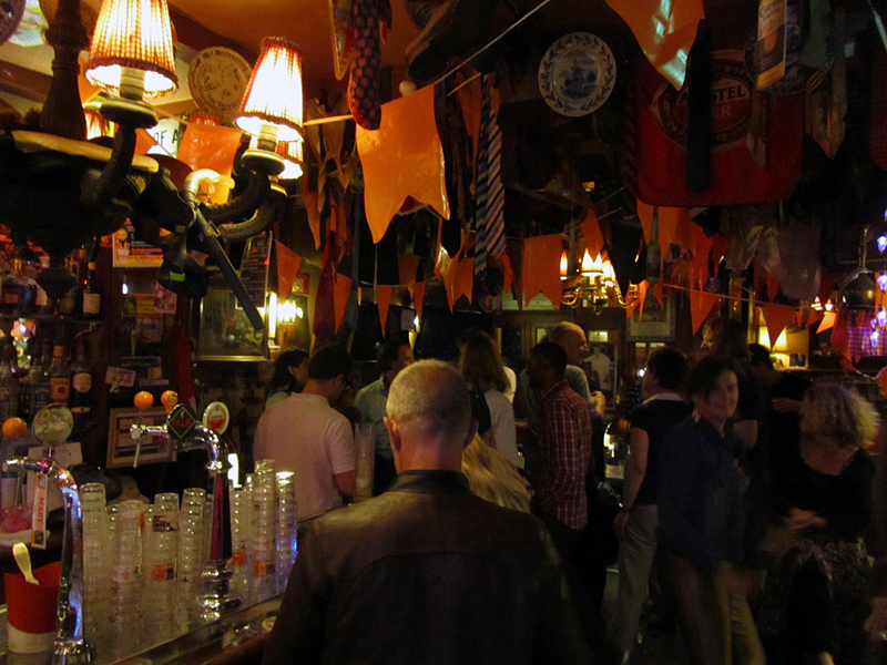 Interior impression of the mixed LGBT-bar 't Mandje at Zeedijk 63 in Amsterdam